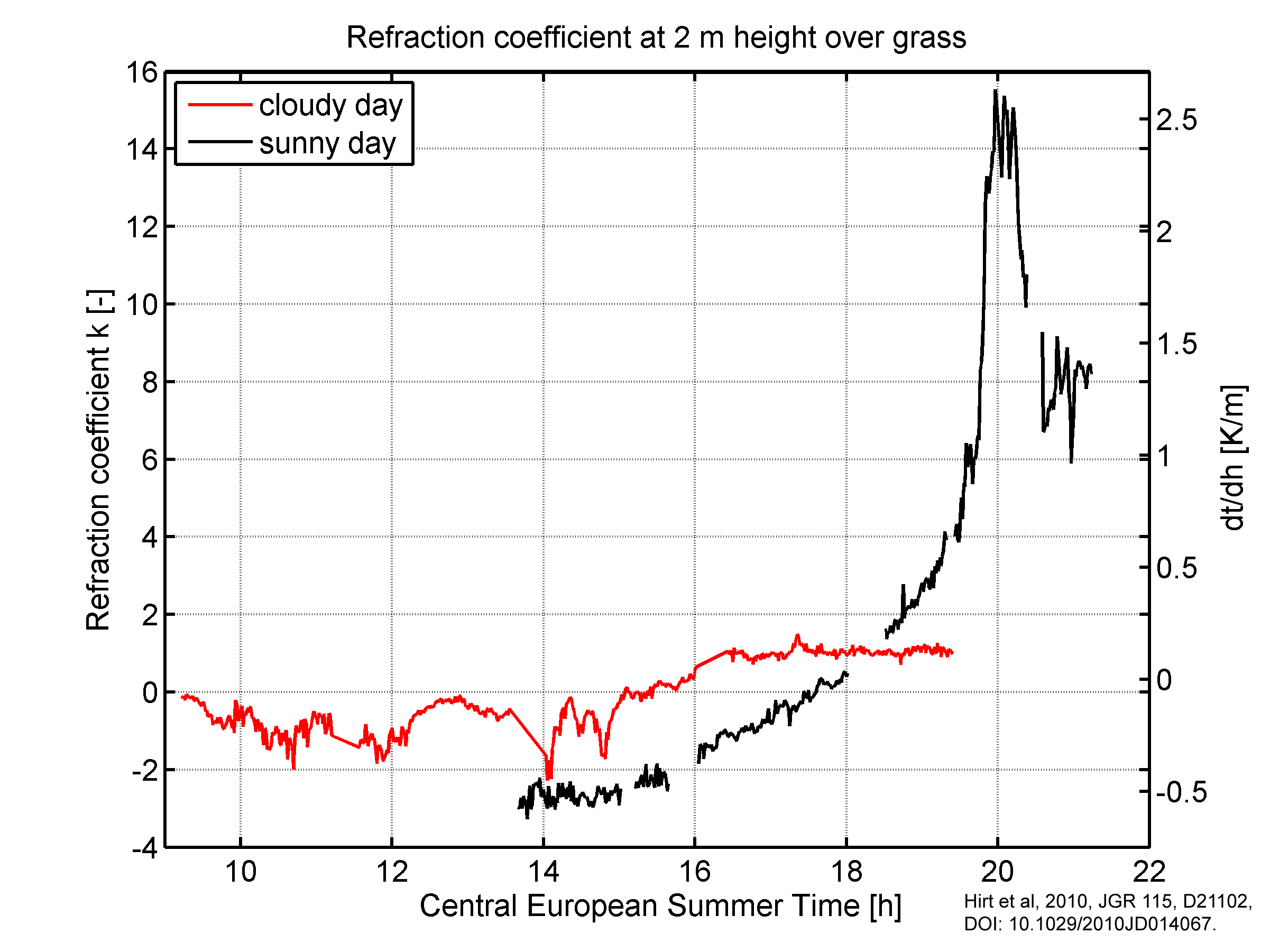 Refraction coefficient in the lower atmosphere.